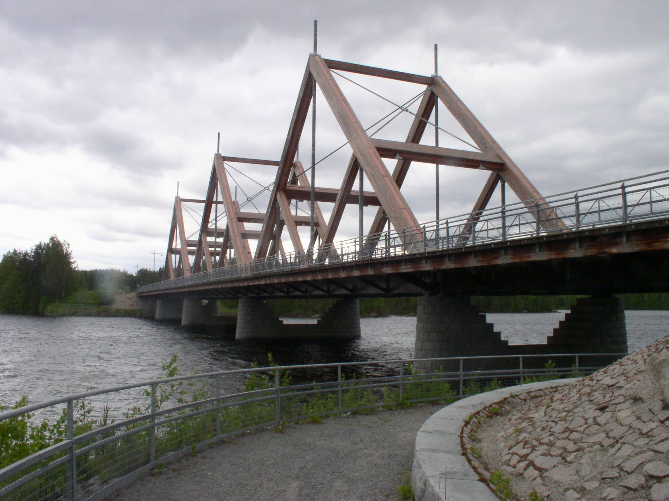 Vihantasalmi Bridge (built 1999) in Mäntyharju, Finland. The bridge is part of the Finnish national road 5.